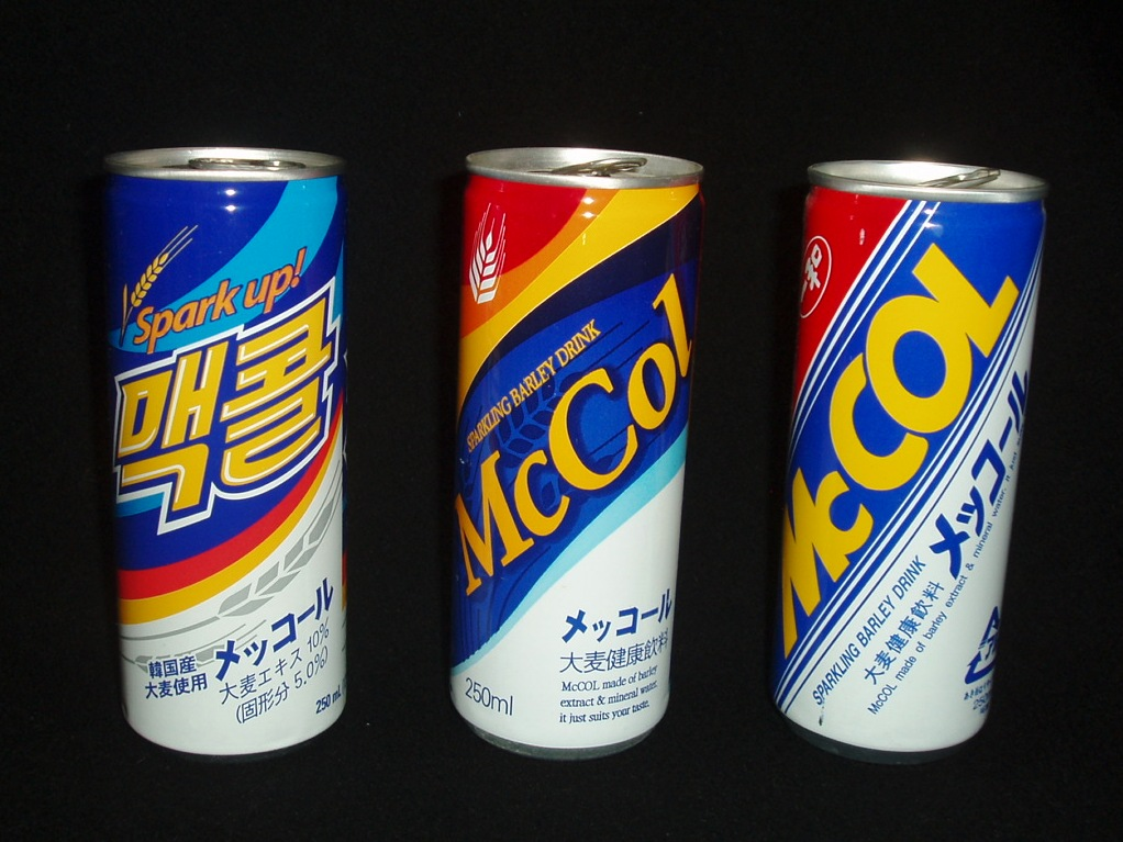 Cans of McCOL (Korean barley beverage) sold in Japan. Left: current one (as of Sep. 2013). Middle: older one (bought in 2009). Right: still older one (bought in 2002).